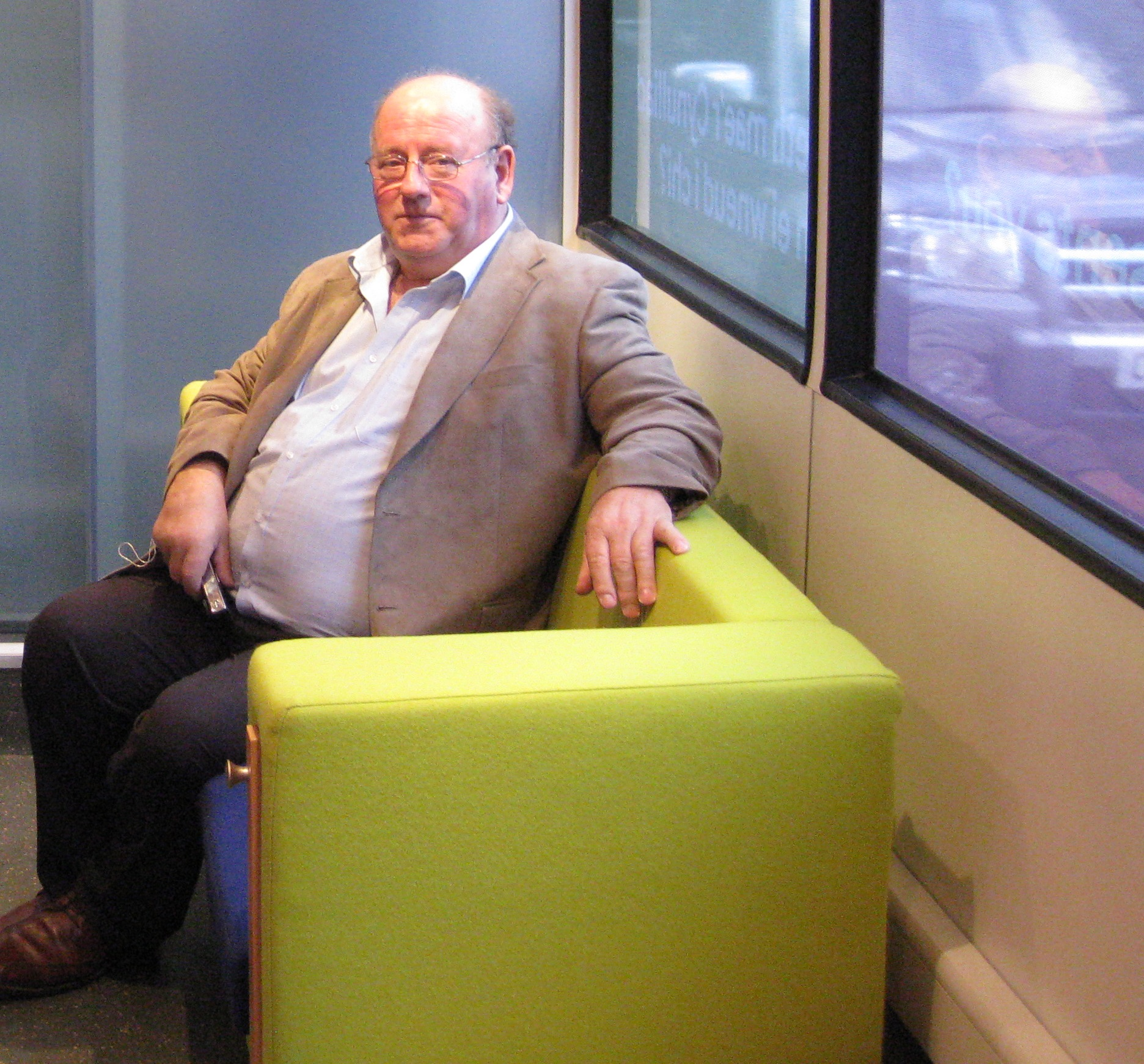 Depicted person: Brynle Williams – Welsh politician